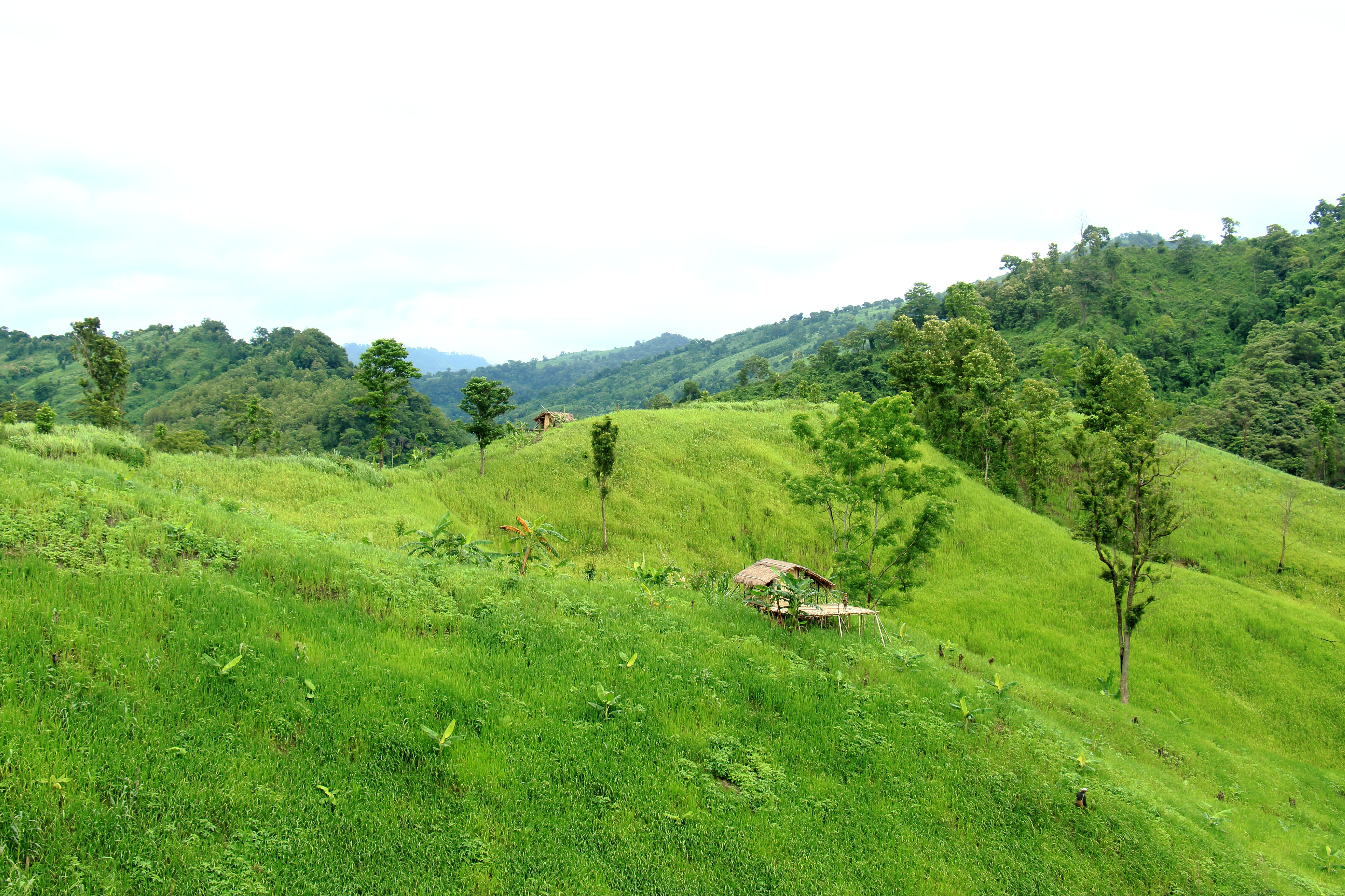 Ruma Upazila on the way to boga lake